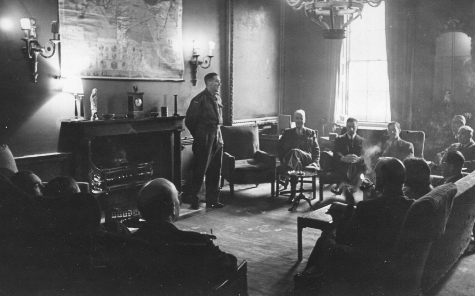 Chatham House's wartime Committee for Reconstruction meeting in the Institute's Common Room, 1943.